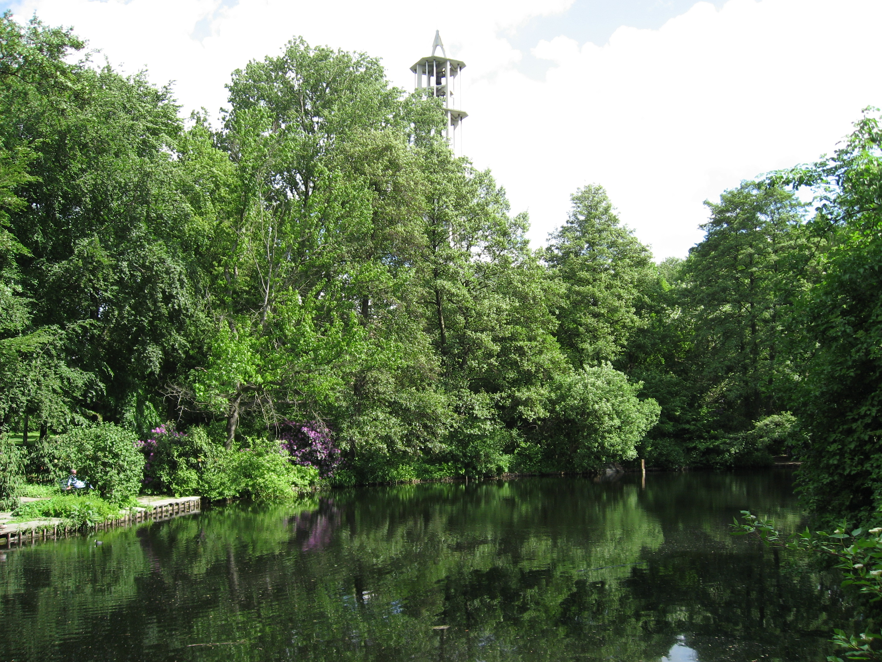 the Tiergarten Woods, Berlin, Germany